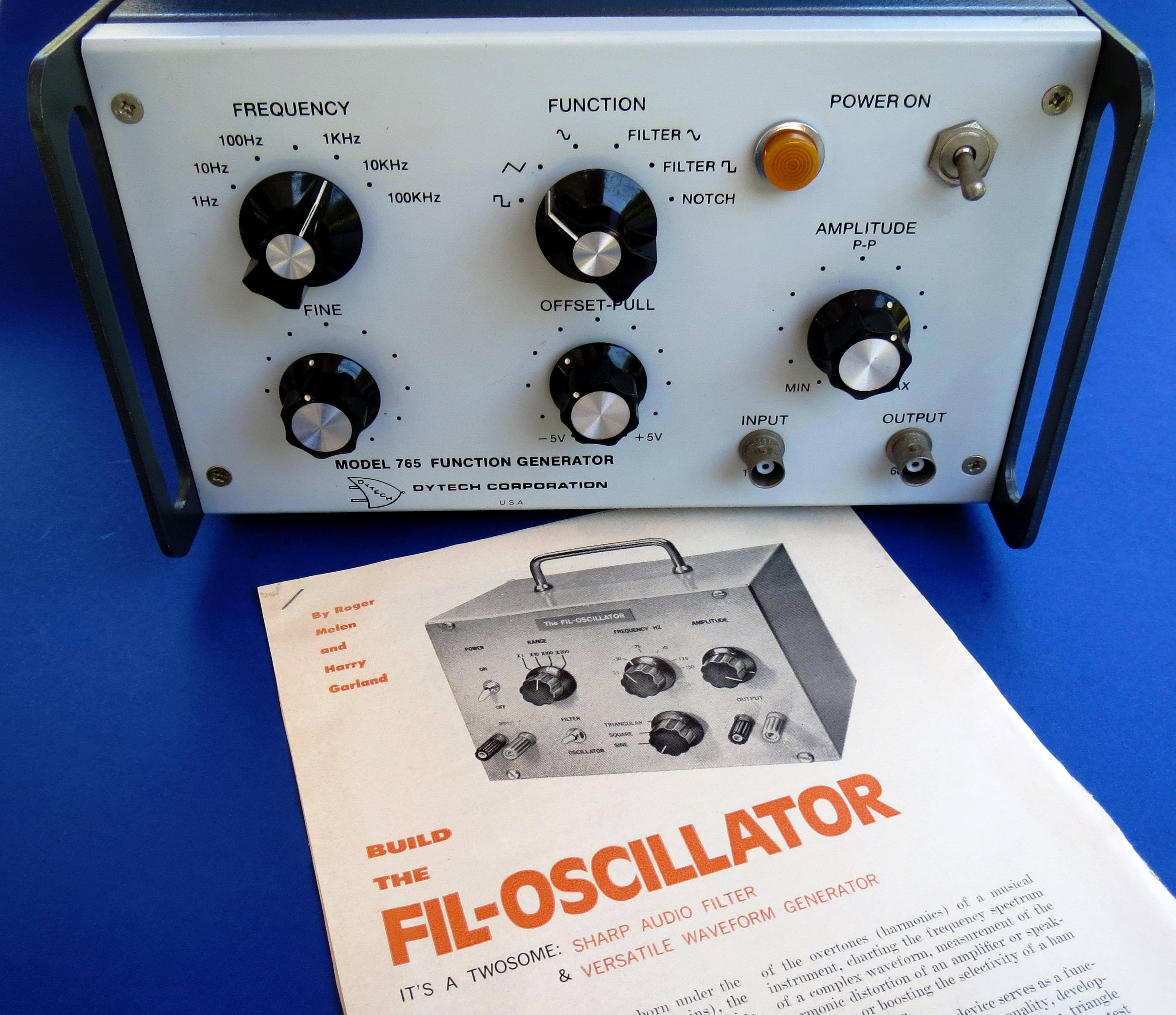 The Fil-Oscillator was introduced in the May 1971 issue of Popular Electronics magazine in an article by Roger Melen and Harry Garland. Melen and Garland licensed the design to Dytech Corporation resulting in this commercial product. Popular Electronics described the Fil-Oscillator as "both a sharp audio filter and a versatile waveform generator." In an independent evaluation by Hirsh-Houck Laboratories the Fil-Oscillator was heralded as "a very useful instrument for an audio engineering laboratory." Roger Melen and Harry Garland went on to found Cromemco.